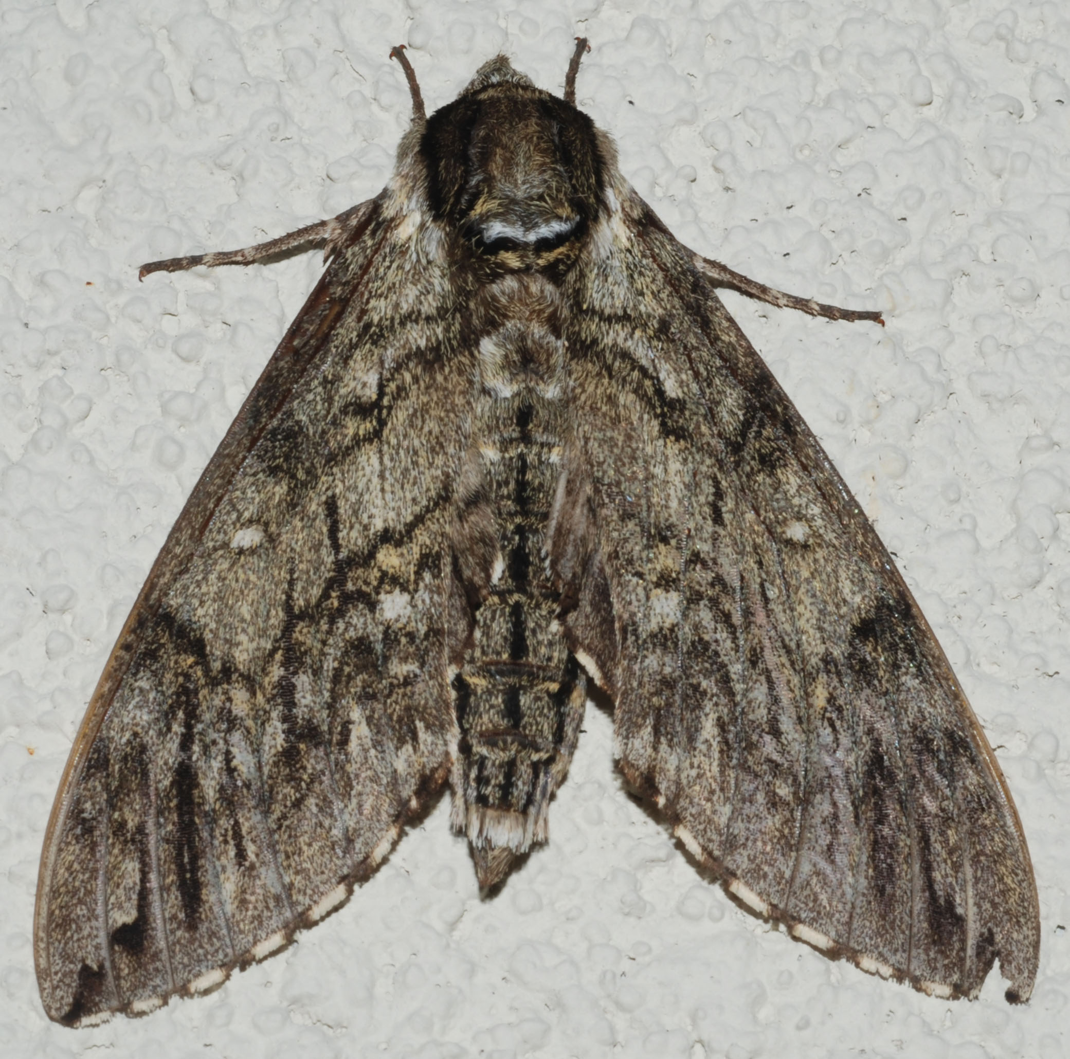 Ceratomia undulosa, Waved Sphinx (Hodges #7787). SERC, Edgewater, Anne Arundel County, MD - 06/07/16. Photo by Robert Aguilar, Smithsonian Environmental Research Center.